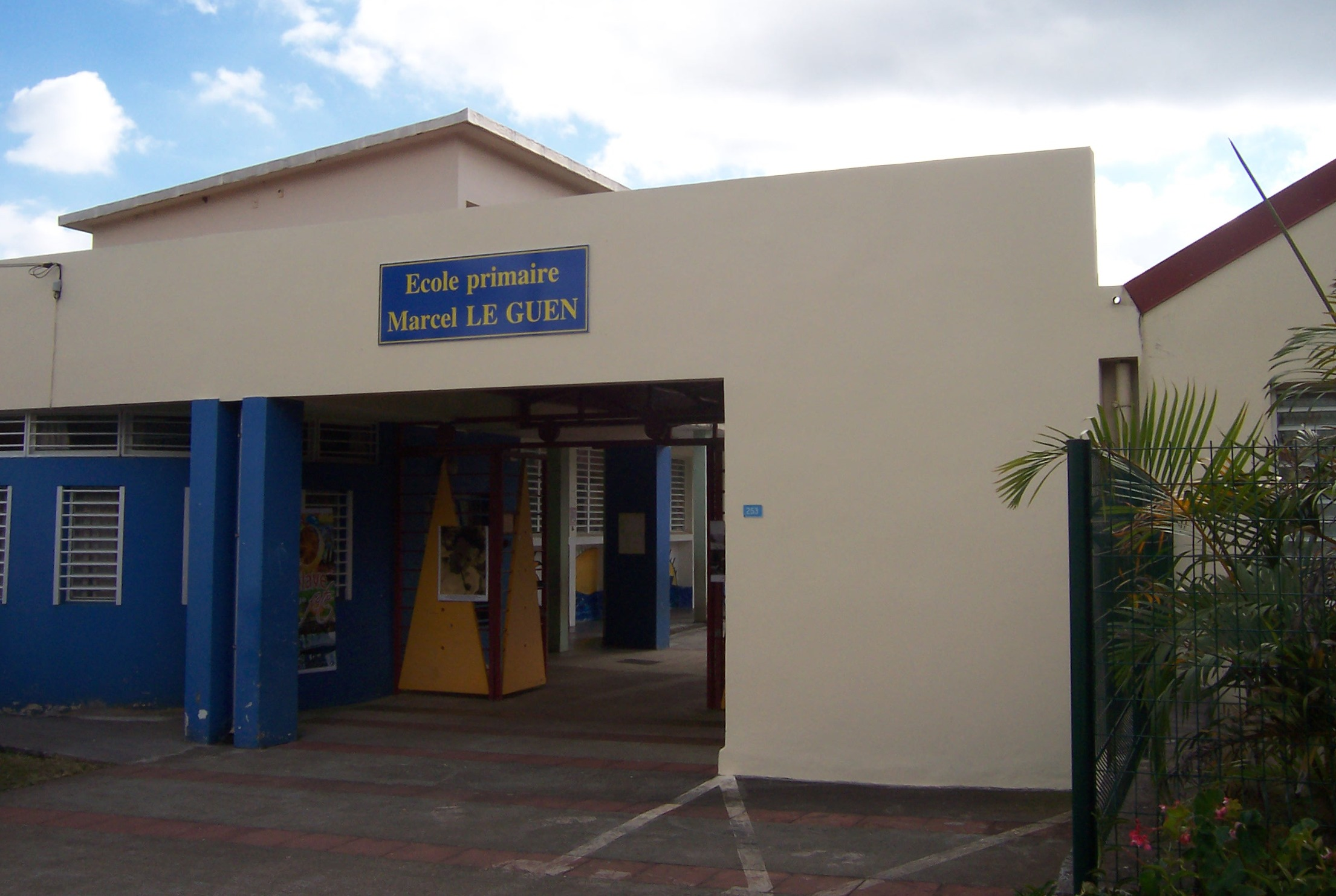 Le Tévelave's school (Réunion island)